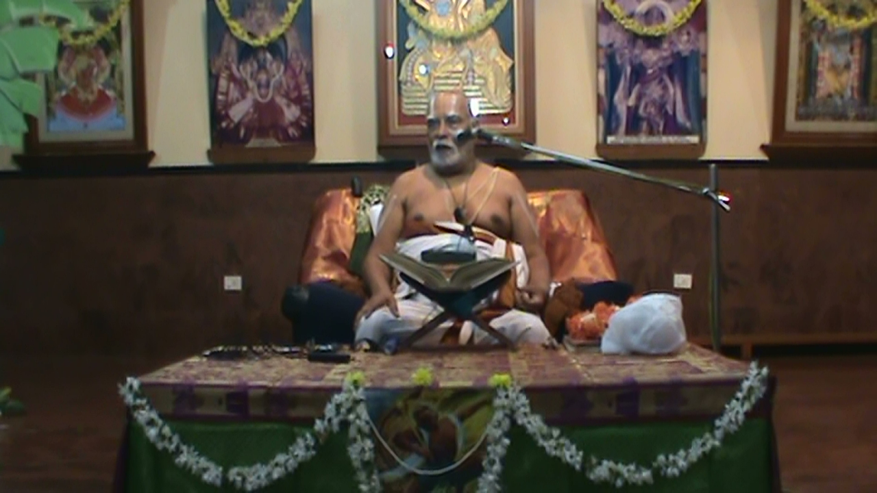 Dr. K.S. Narayanacharya during the discourse on Srimad Sundara Kandam held at Bangalore (April 2011)